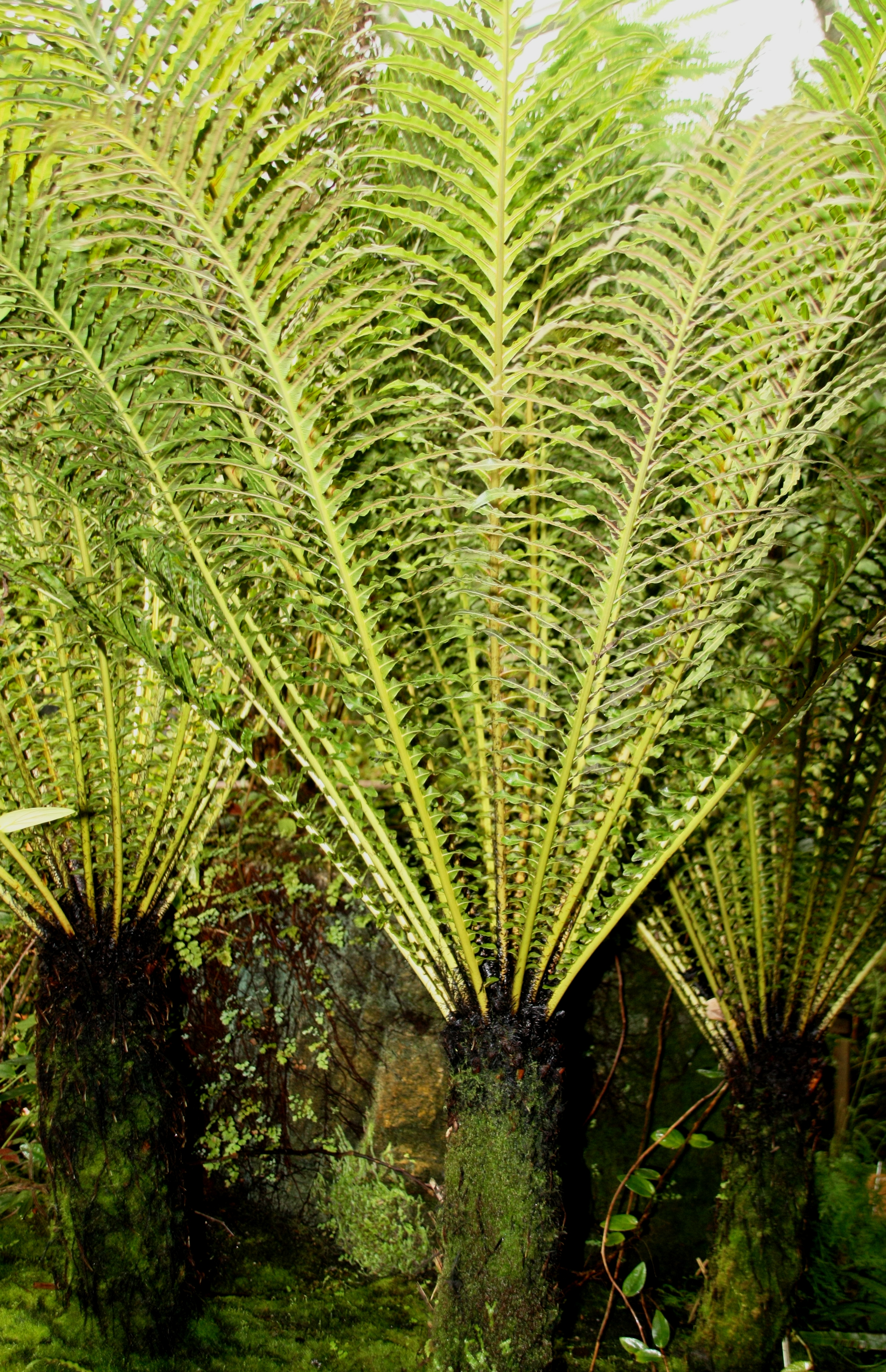 Blechnum brasiliense, Snímek byl pořízen během "Fotografickéh workshopu v Botanické zahradě Fata Morgana", Praha, 15. prosince 2012.